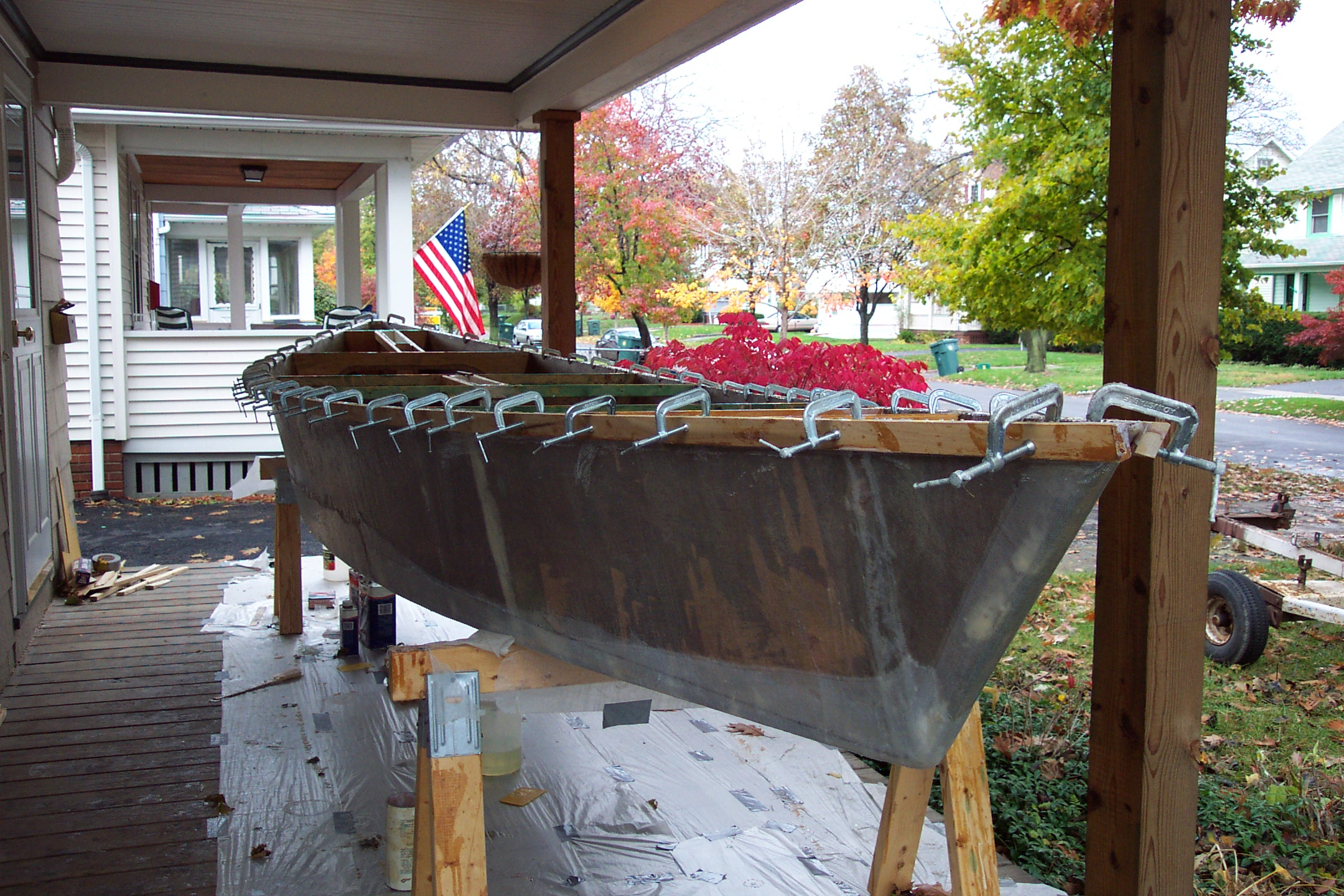 A sheet plywood sailboat, built in the "instant boat" style, during construction. The hull is sheathed in xynole fabric and coated with epoxy; the construction is all adhesive (epoxy), with no fasteners.